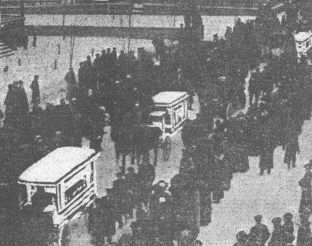 A funeral procession for victims of the Italian Hall disaster. The procession took place on Sunday (probably December 28, 1913) and was two miles long and lined by thousands.